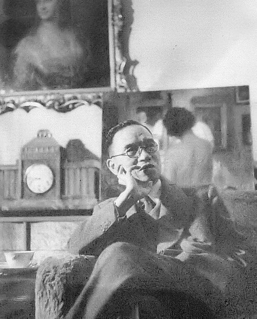 Shojiro Ishibashi